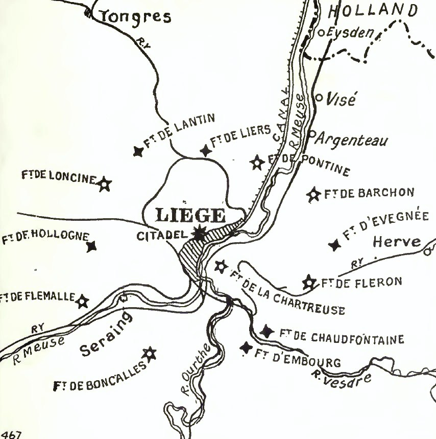 Liege fortresses, 1914